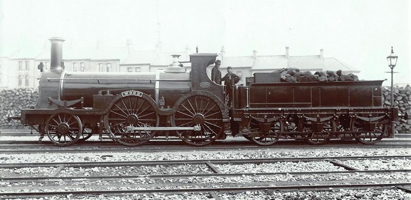 Great Western Railway 7-foot broad gauge 2-4-0 Wood, a member of the Hawthorn class, outside the engine shed at Millbay station in Plymouth.